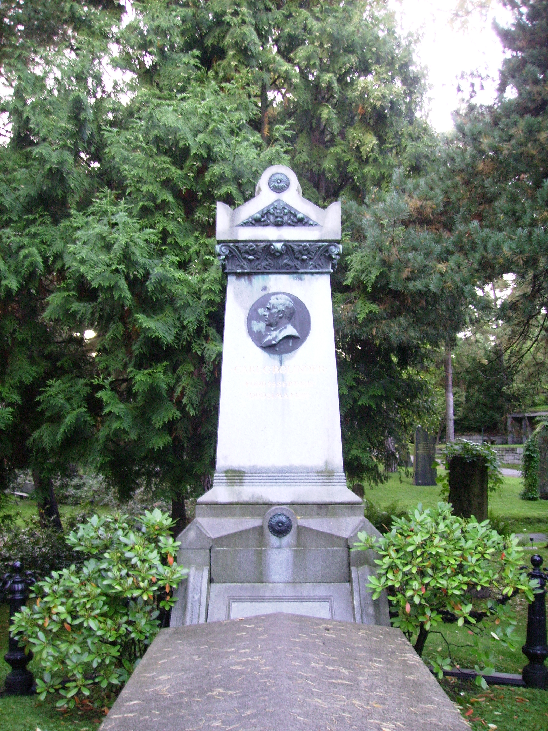 Picture of Carl Gerhard Bolinder's grave at Norra begravningsplatsen in Stockholm